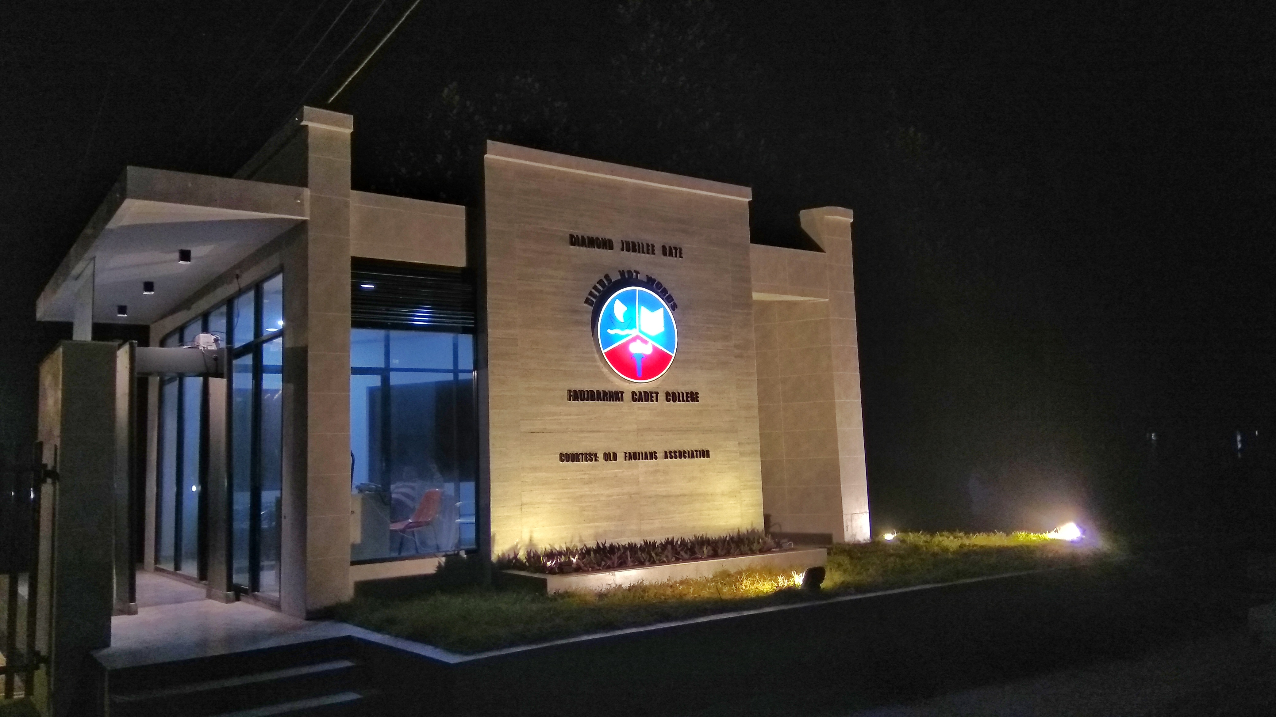 This is an gate of Faujdarhat Cadet College which was bulild by OFA for Diamond Jubilee Reunion of old students.